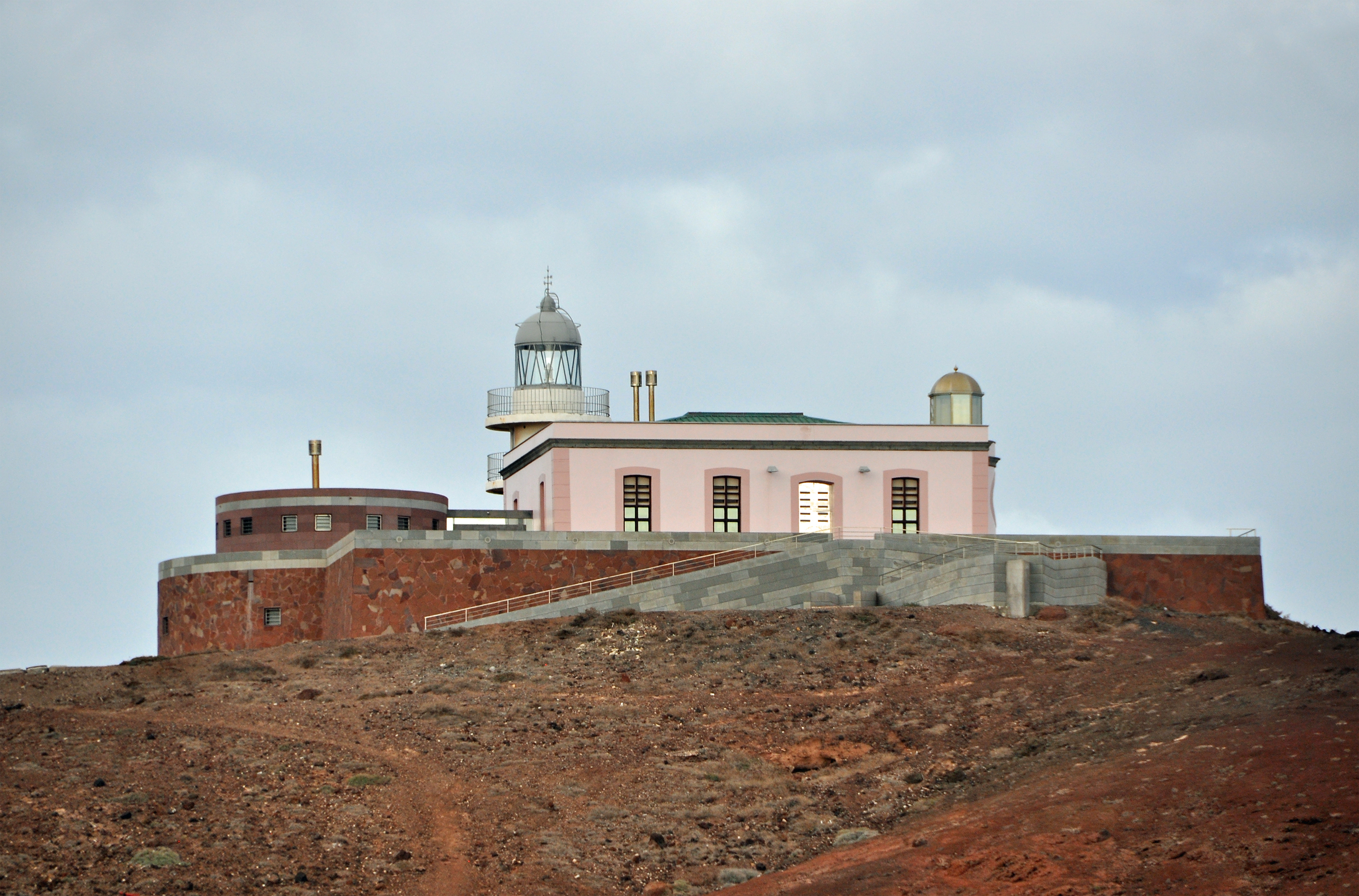 The lighthouse of Punta de Arinaga, on the cape north of the village of Arinaga (municipality of Agüimes, Gran Canaria)